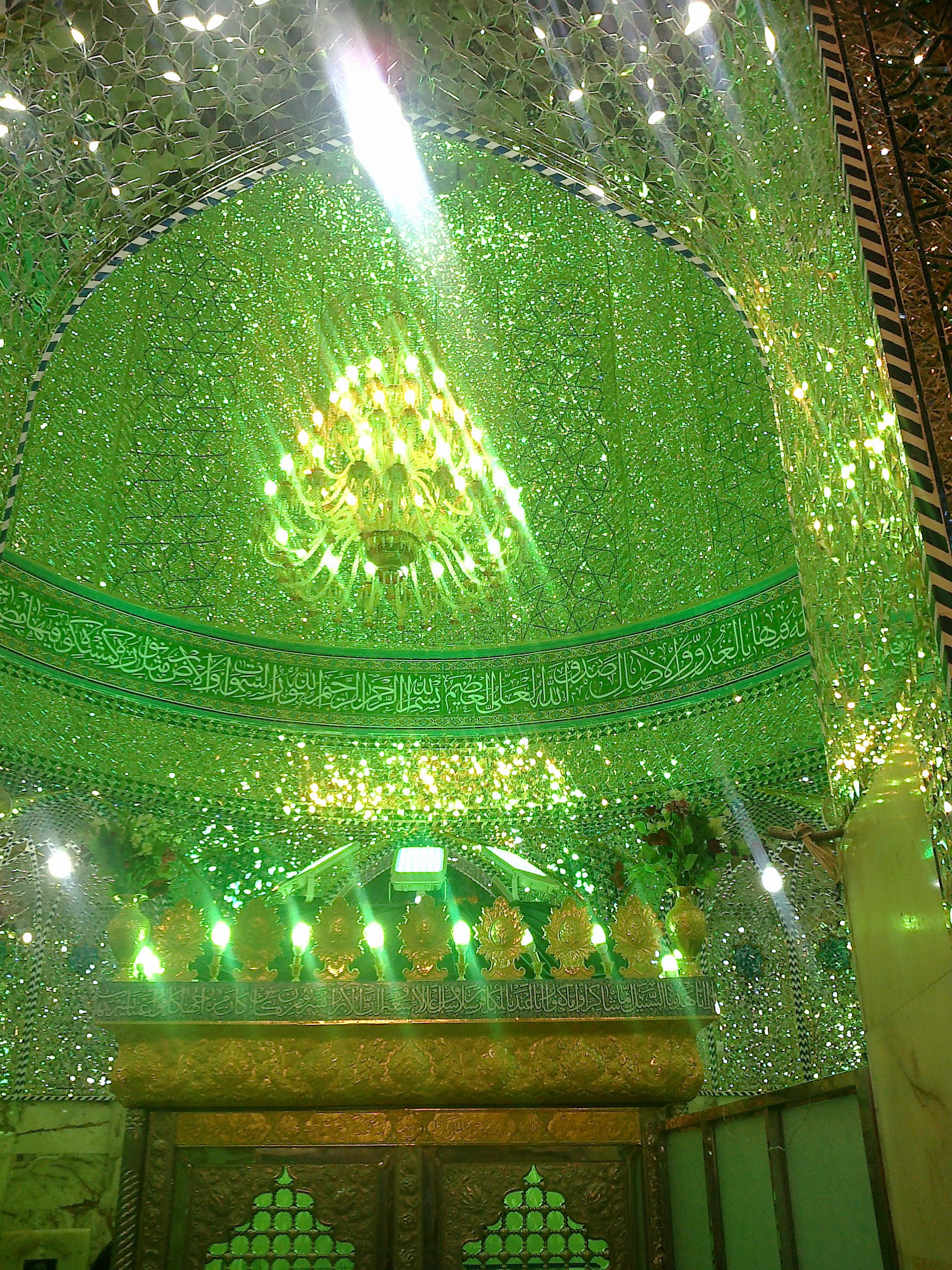 Mirroring art of Imam-descendent Ishmael tomb. One of famous places in Shahriar city, Tehran.